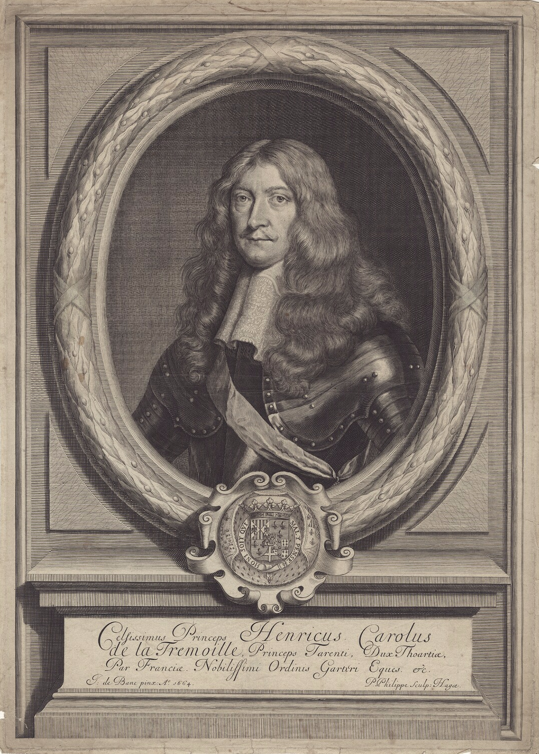 The french nobleman Henri Charles de La Trémoille (1620-1672)